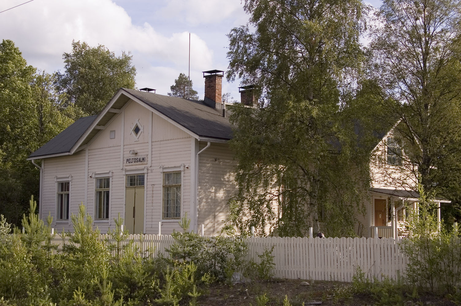 Peltosalmi railway station in Iisalmi, Finland.